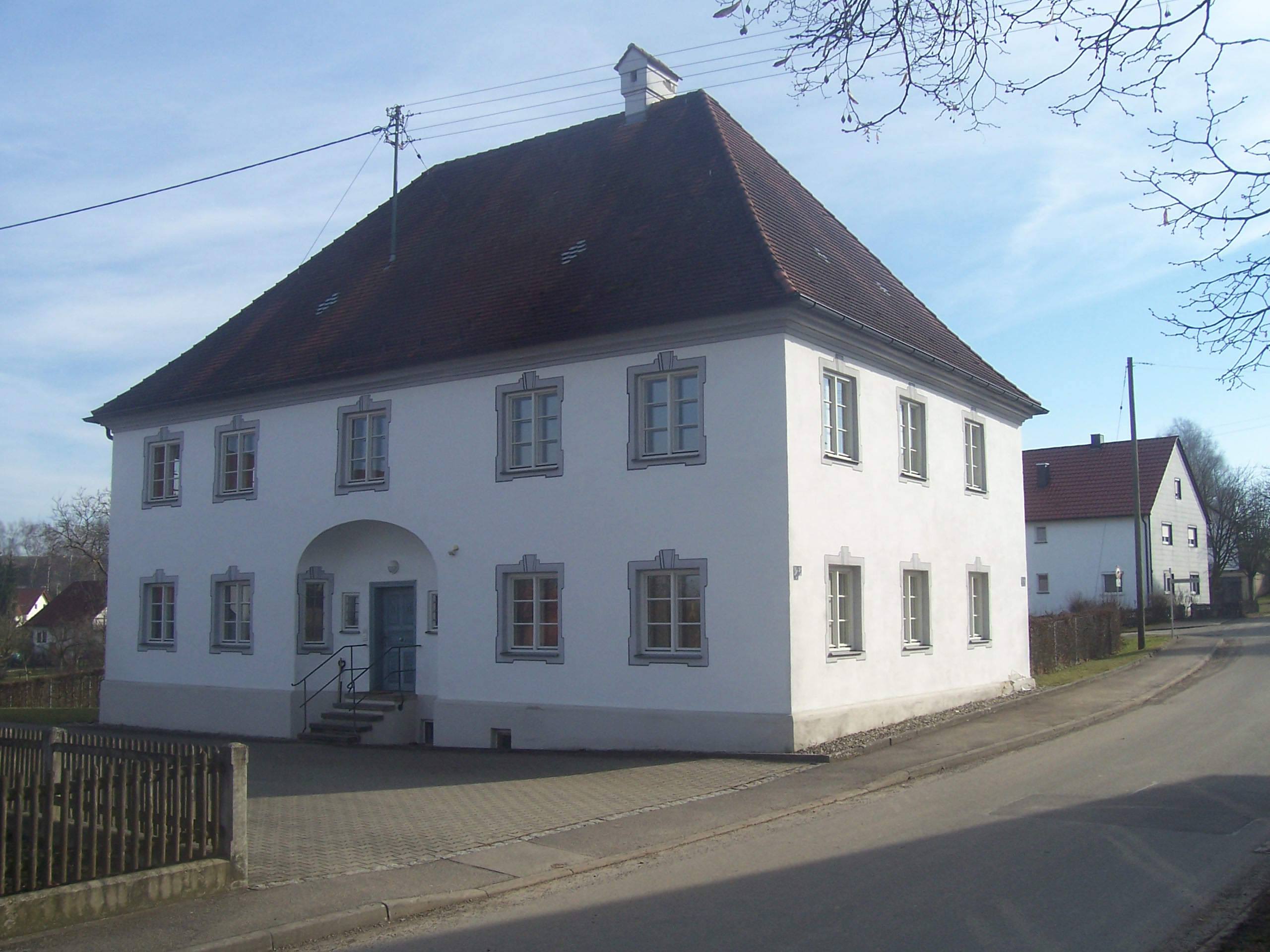 Pfarrhof Christertshofen